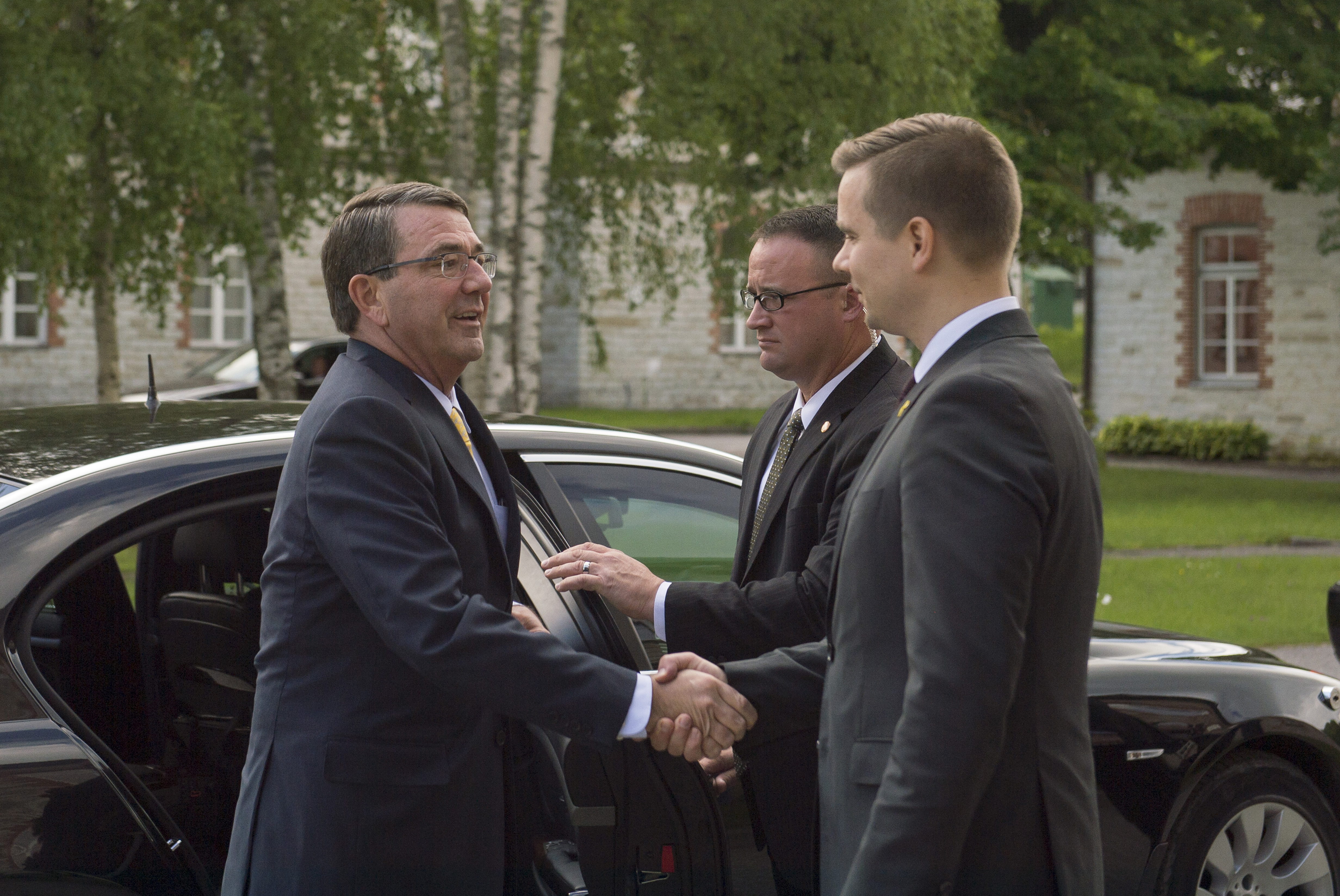 Secretary of Defense Ash Carter is greeted by Mikk Marran, the Permanent Secretary of Defense of the Estonian Ministry of Defense as he arrives the North Atlantic Treaty Organization Cyber Center in Tallinn, Estonia as part of a European trip June 23, 2015. Secretary Carter is traveling in Europe to hold bilateral and multilateral meetings with European defense ministers and to participate in his first NATO ministerial as Secretary of Defense.